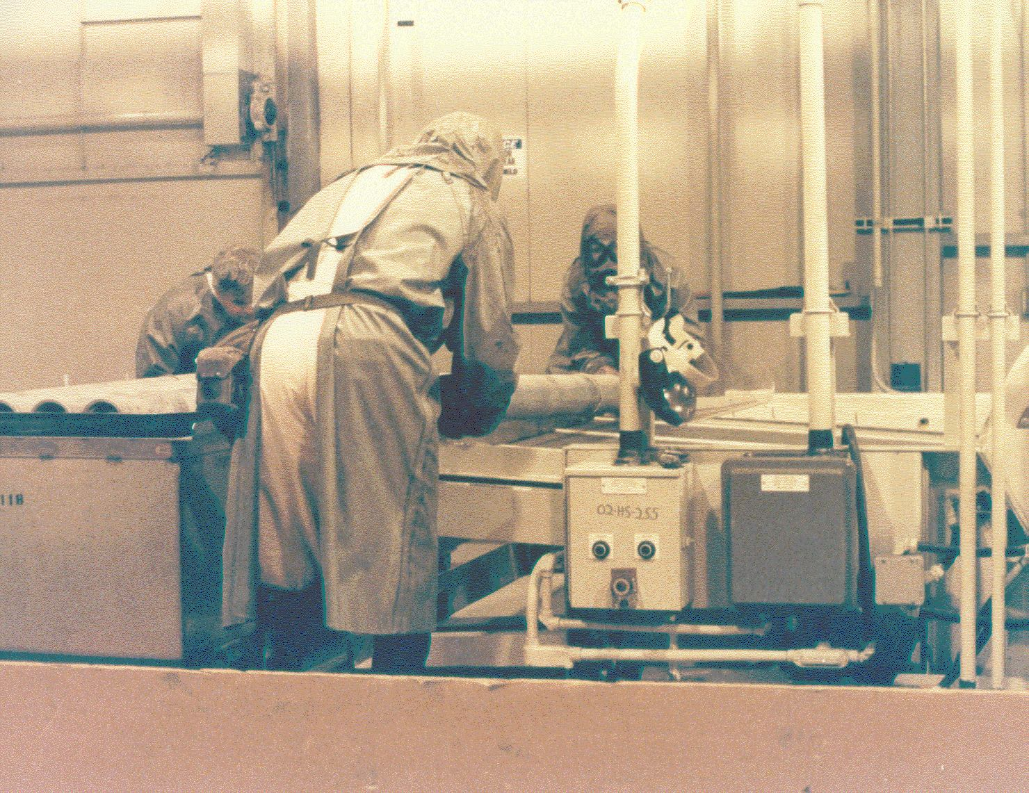 The first chemical munition, a GB (Sarin) filled M55 rocket, is destroyed at JACADS in 1990.